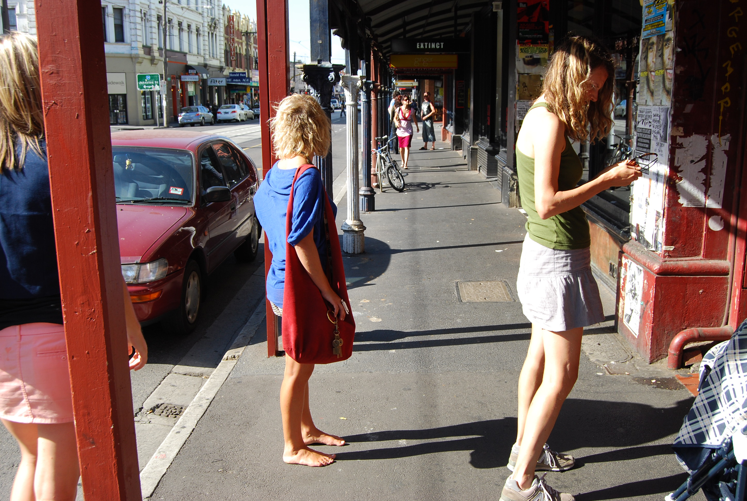 An Australian woman barefoot in the street